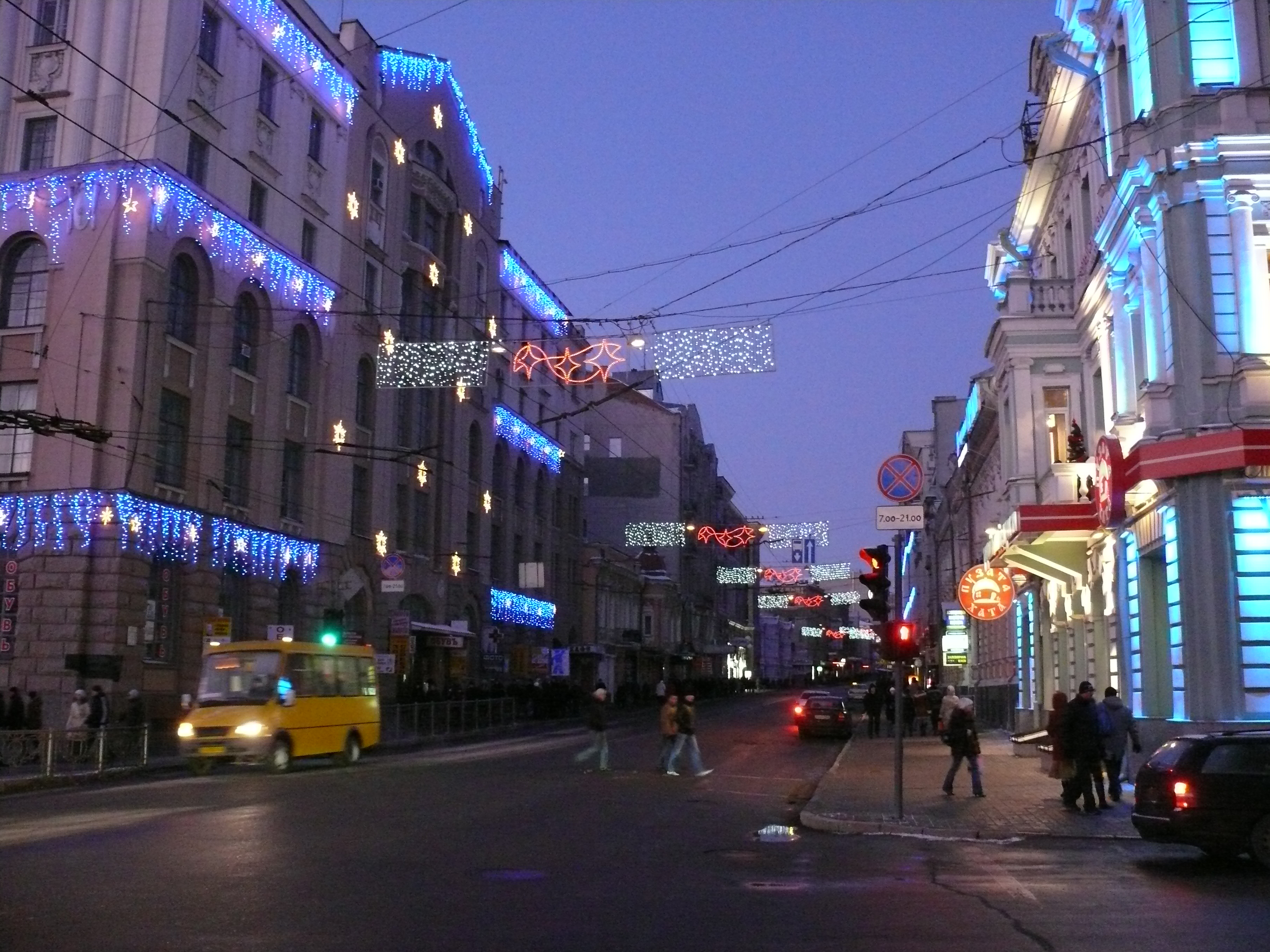 Kharkov. Sumskaya Street. New 2009 Year.